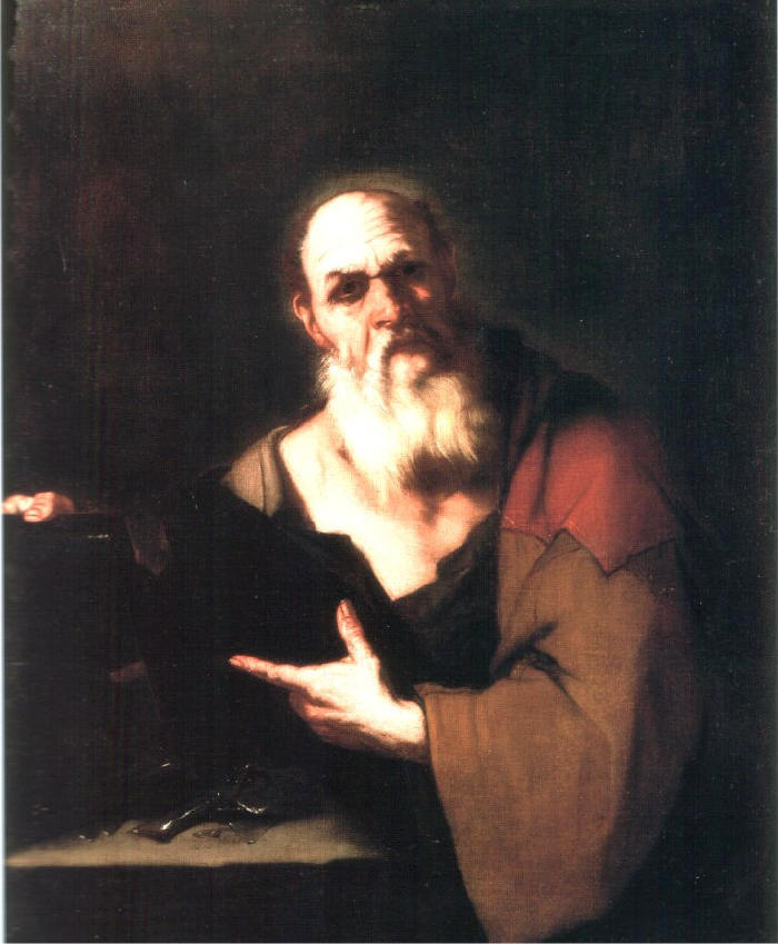 Socrates.